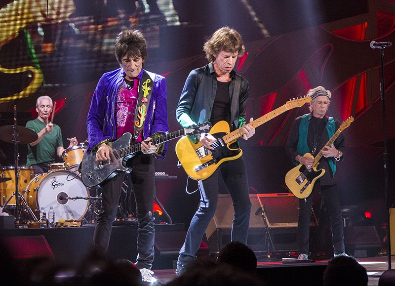 The Rolling Stones at Marcus Amphitheater in Milwaukee, USA, performing at Summerfest festival on June 23, 2015.